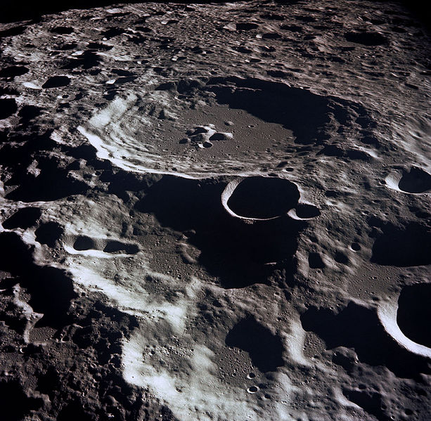 The largest crater in the picture is Daedalus. Located near the center of the far side of the Moon, its diameter is about 93 kilometers (58 miles). This image was taken by Apollo 11 with Daedalus being Crater 308.